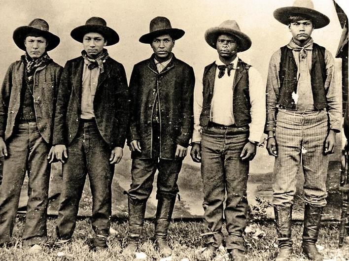 The Buck Gang. Rufus Buck, Ute Indian & others. Captured, probably Aug. 1895